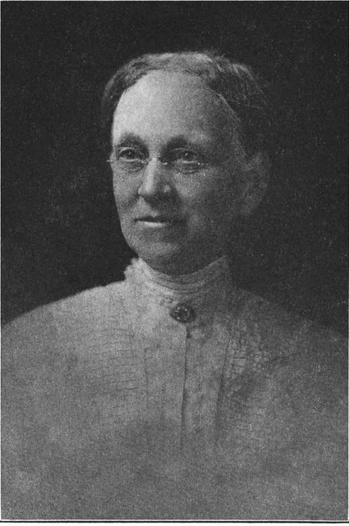 Ella Eaton Kellogg, age 60